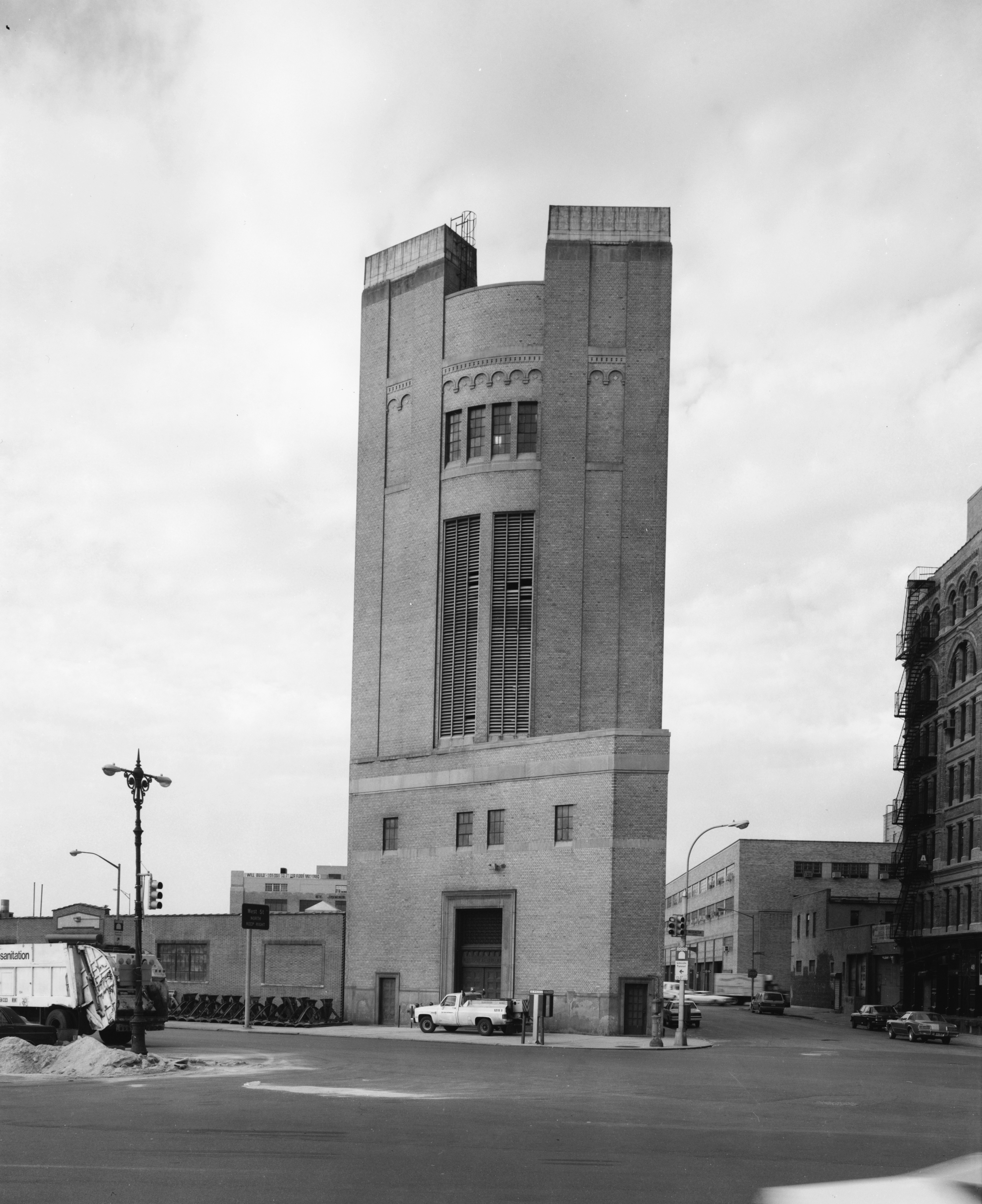 Holland Tunnel land ventilation building, South Side. New York City